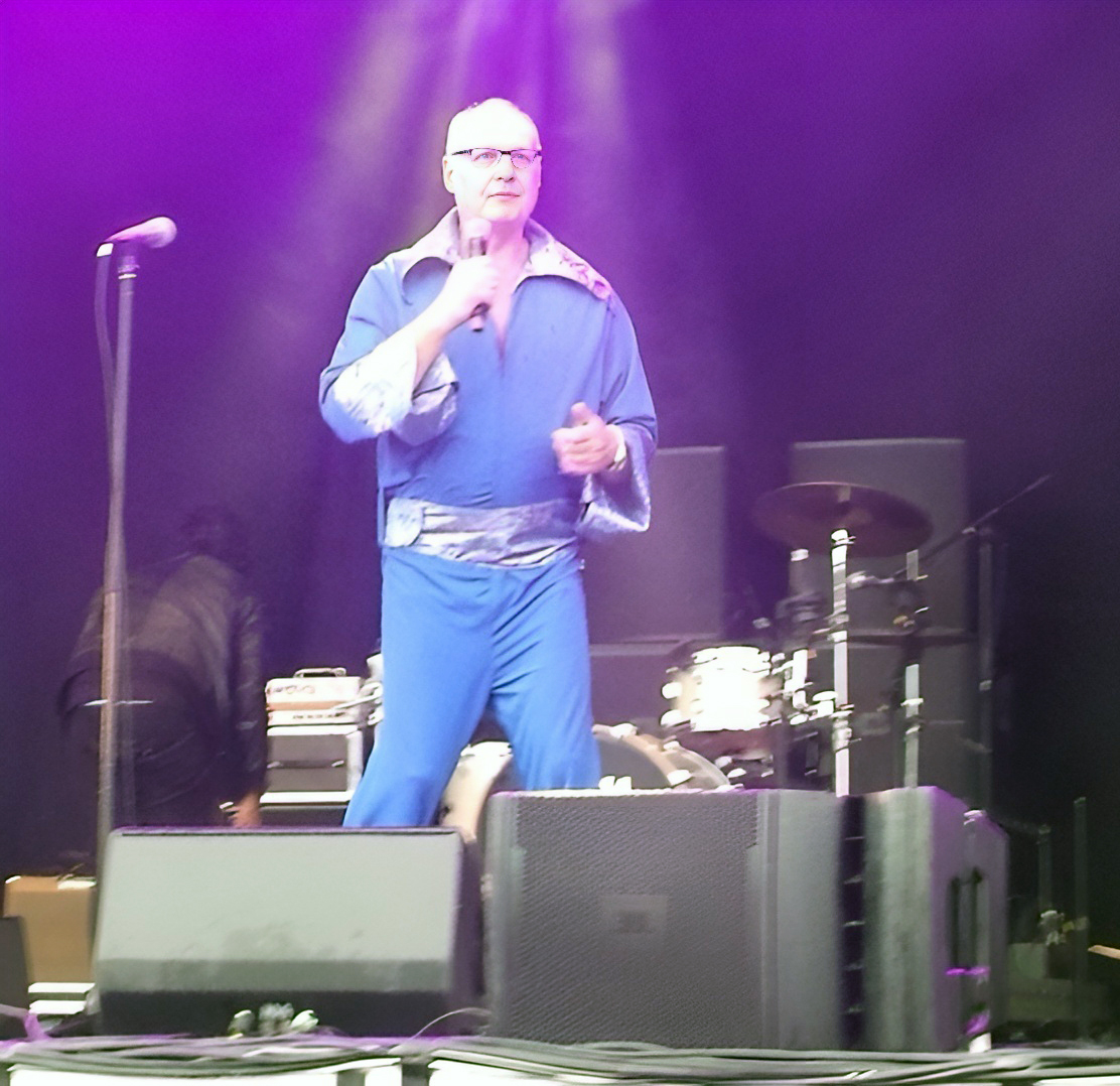 Swedish Elvis-impersonator Eilert Pilarm during a performance in 2014